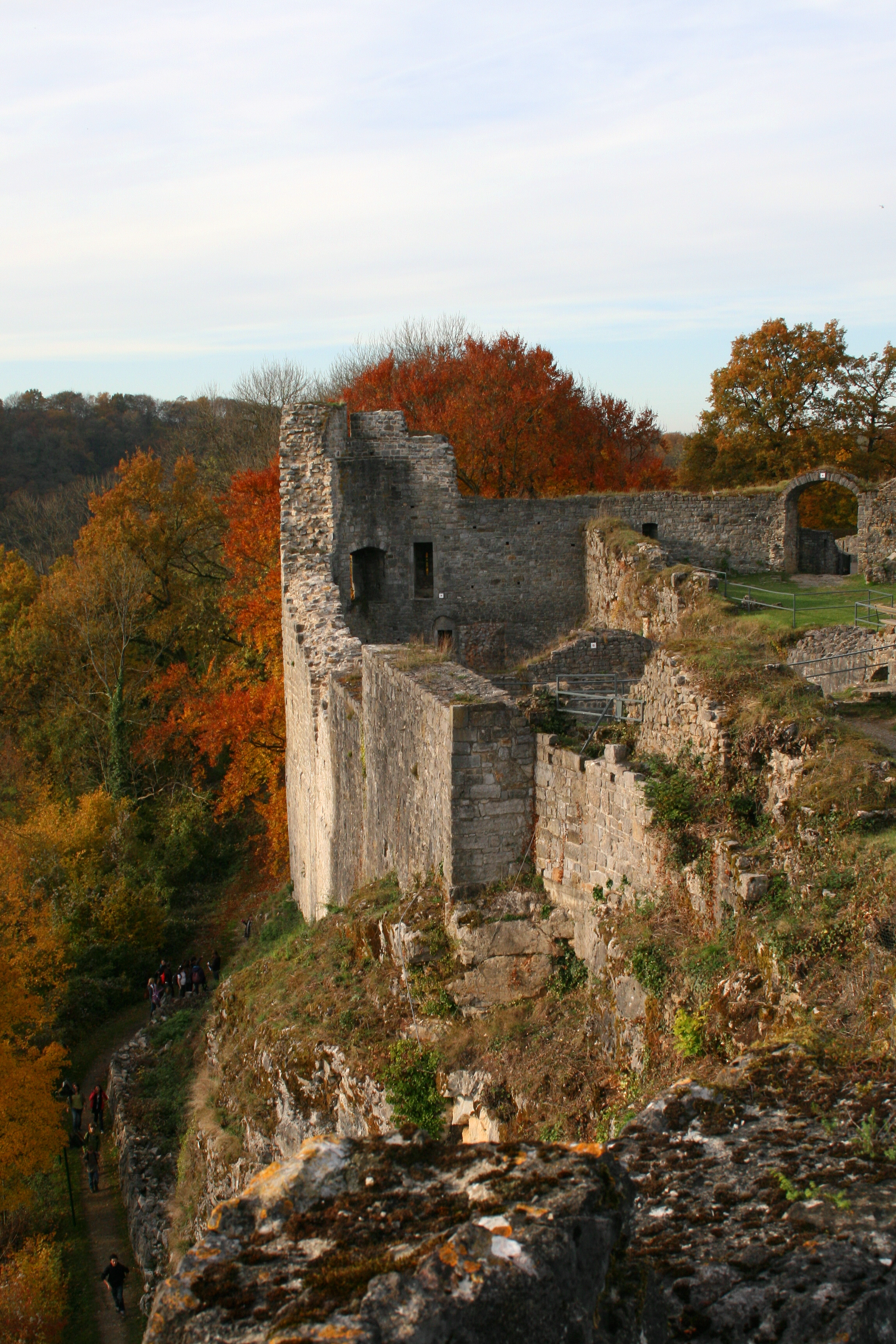 Castle ruins of Logne in Vieuxville, Belgium (IX-XVIIth centuries).